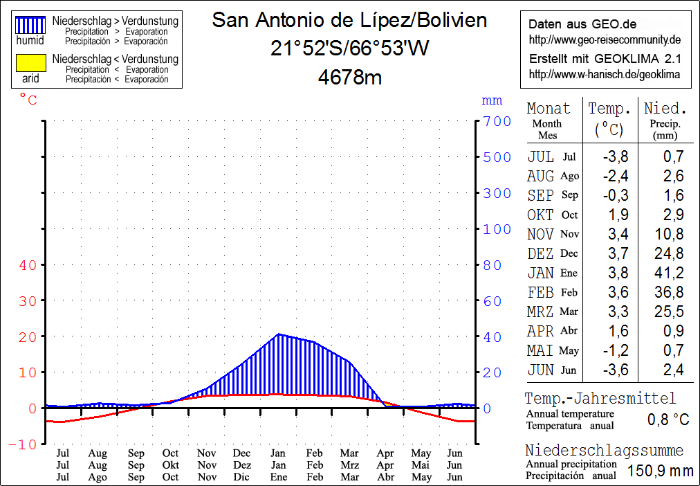 Climate chart in the Walter and Lieth format, metric, °Celsius und millimeters, made with Geoklima 2.1